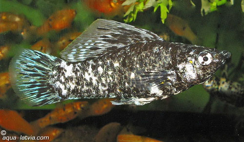 Dalmation Molly Example